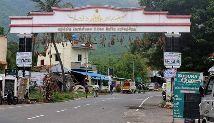 Entrance to kollimal at karavally juction